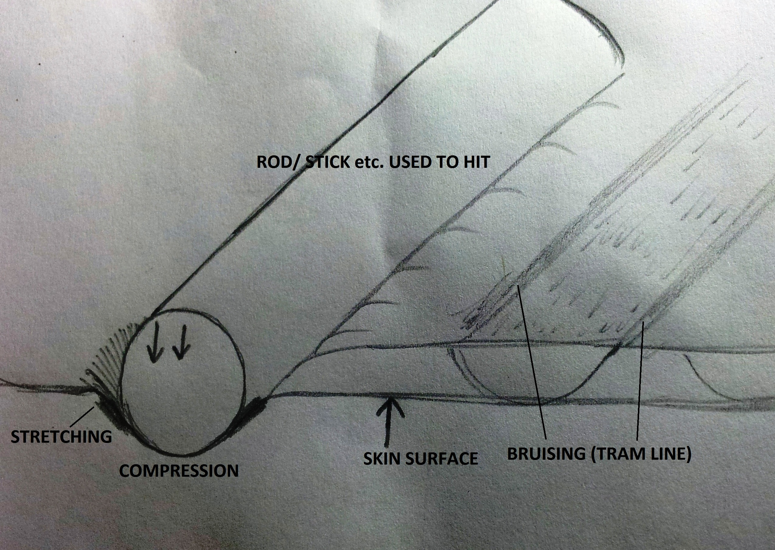 TRAM LINE CONTUSION